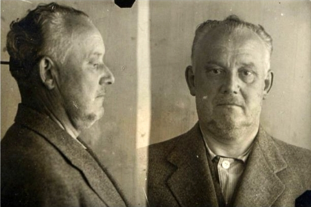 Johan Laidoner (1884-1953) – Estonian military, Commander-in-chief of the Estonian Army in 1918–1920 during Estonian War of Independence, and later also during 1924–1925, and 1934–1940. In 1940 arrested by Soviet NKVD, imprisoned, died in Soviet prison in Vladimir